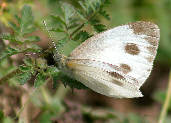 Pieris sp. (species to be identified). Shot taken in Kullu distt. of Himachal Pradesh, India during Saurkundi Pass Trek.